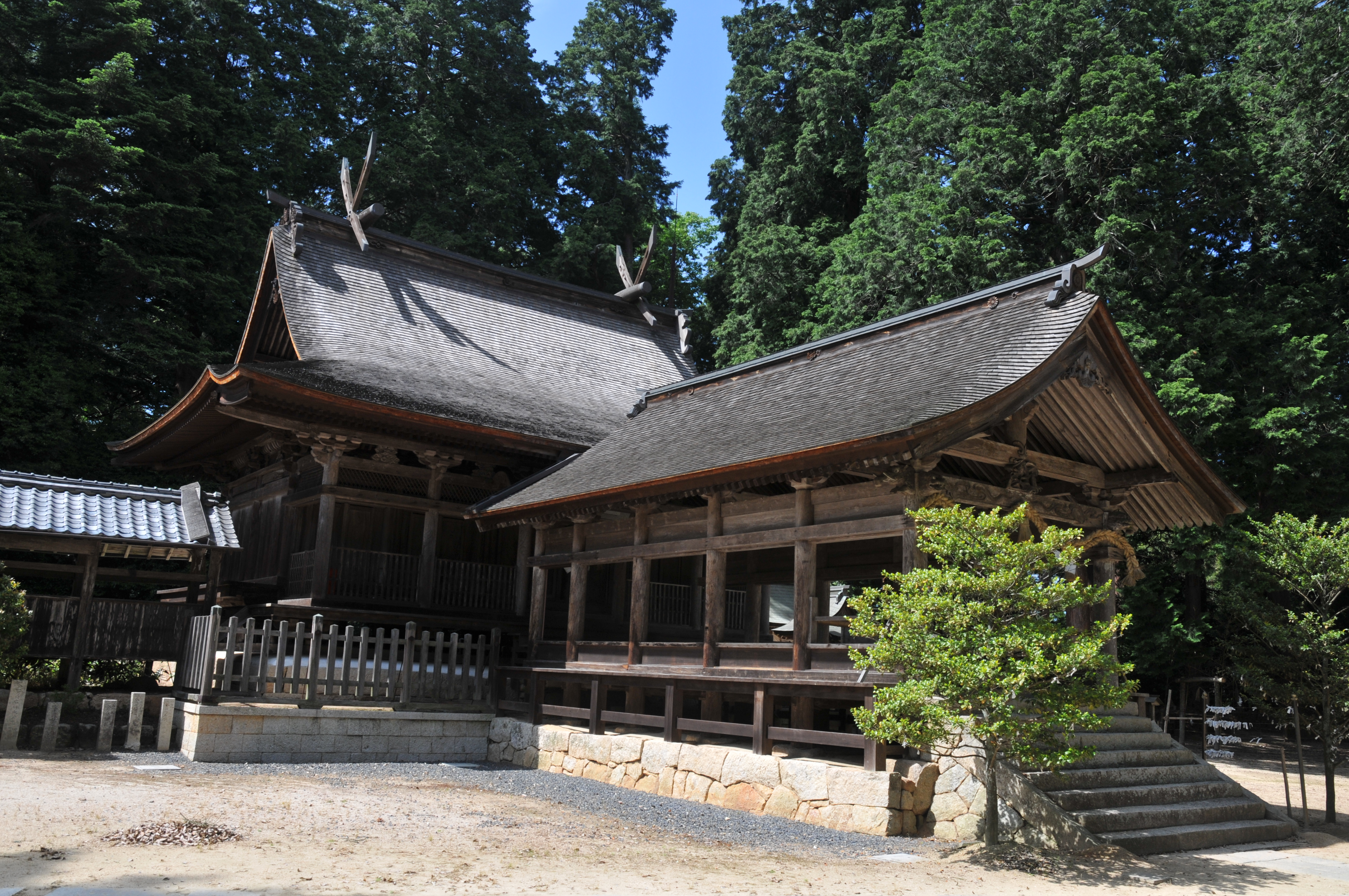 worship hall and Main shrine(Japan's national important cultural property), Yoshikawa Hachimangū, Okayama Pref., Japan